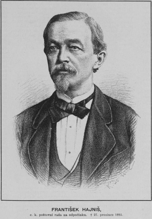 Portrait of František Hajniš (1815 - 1885), Czech humorist - poet and writer.